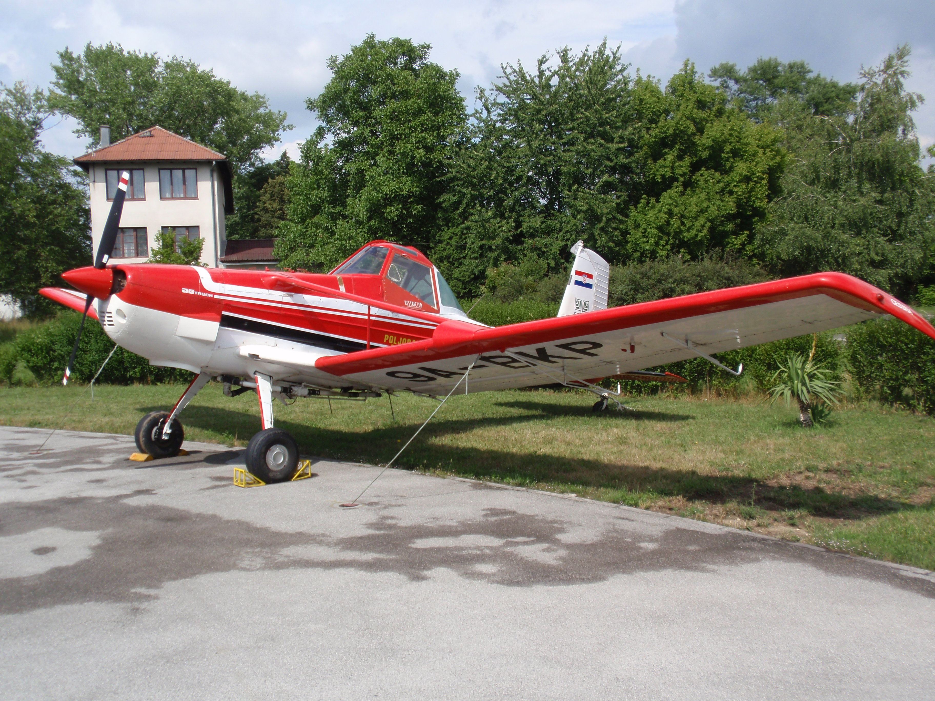 Cessna A188B on Lučko Airport